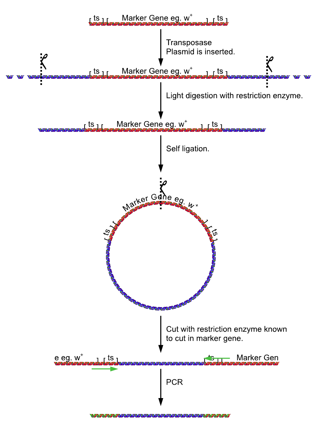 By Richard Wheeler (Zephyris) 2005; Analysis of DNA flanking a known insert by PCR (specifically with p elements).